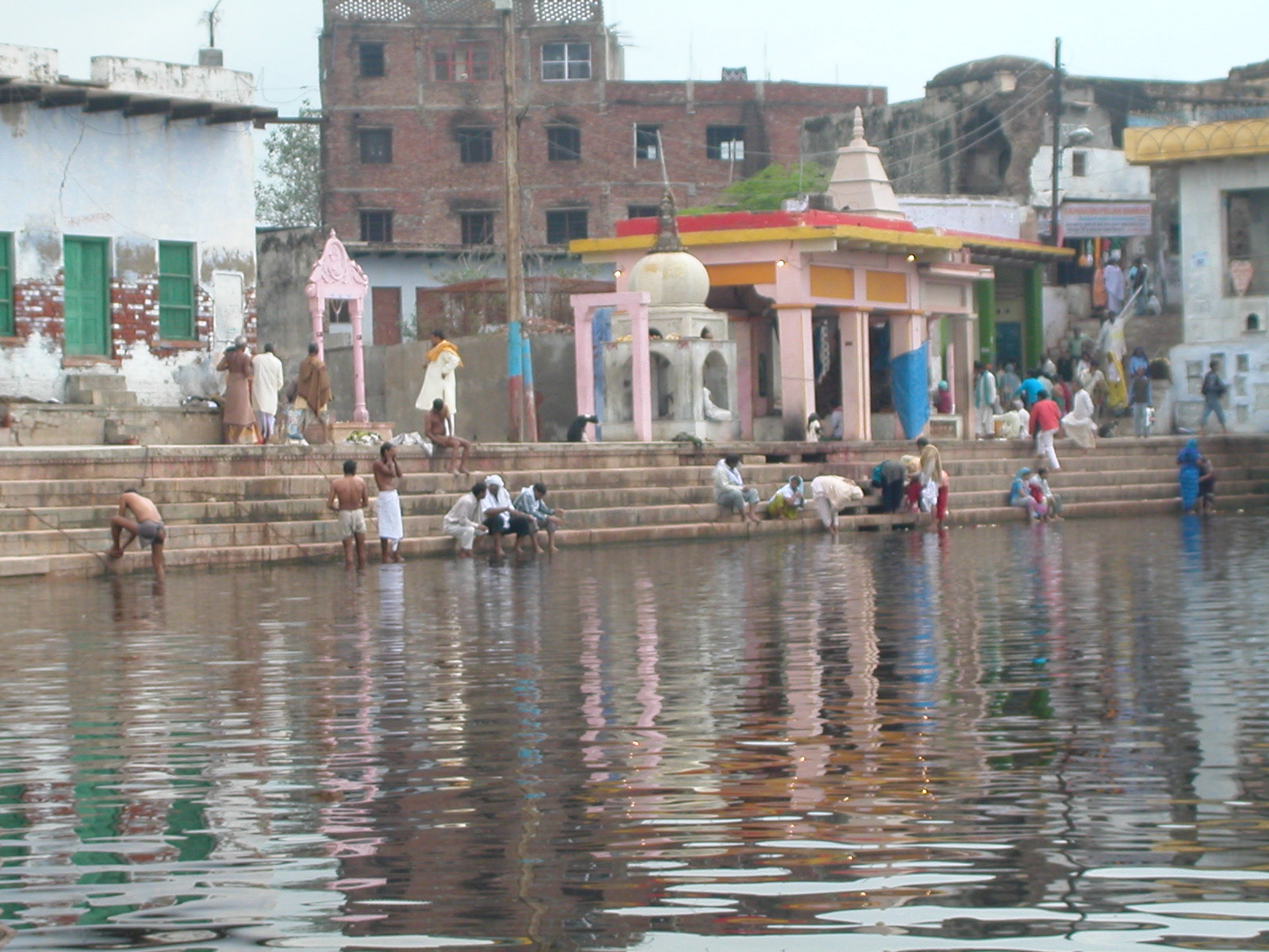 The pond of Radha-Kund, India